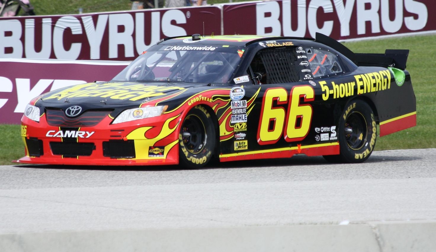 NASCAR driver Steve Wallace racing his stock car at Road America at the 2011 Bucyros 200 Nationwide Series race.